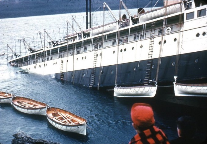 The Princess Kathleen ran aground in 1952 about 18 miles north of Juneau, Alaska. She ran aground at low tide. Everyone was rescued. As the tide came in she slipped under the surface and has become a great place for Scuba Divers to visit.